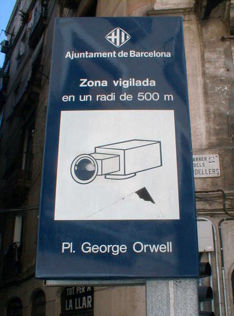 Placa George Orwell in Barcelona, Spain is watched by video cameras